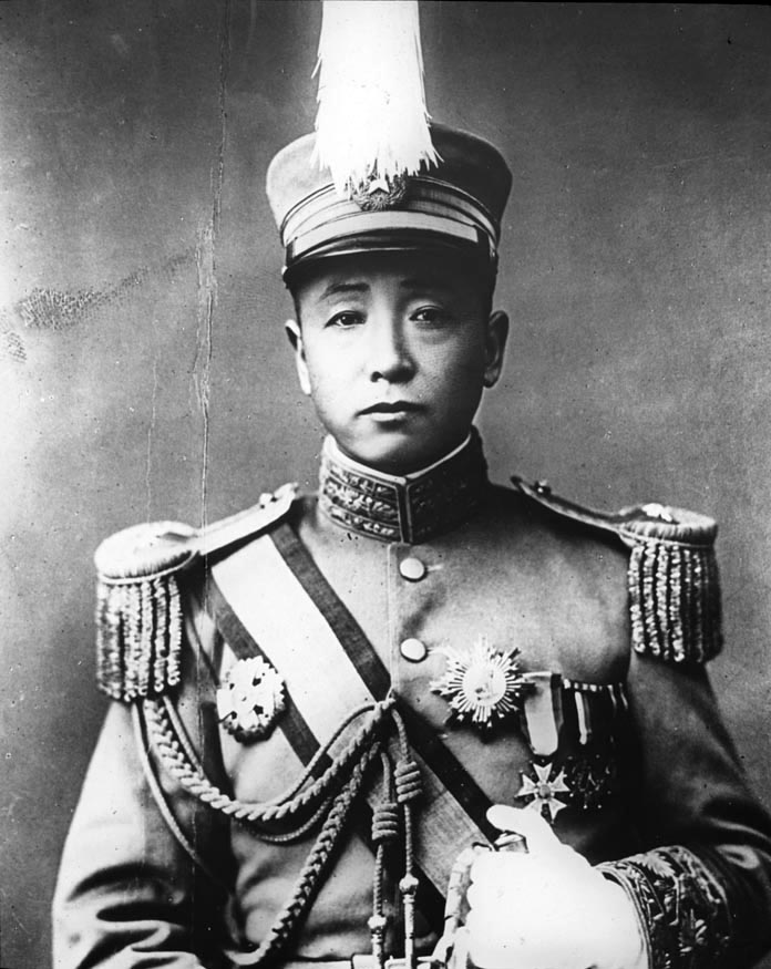 Zhang Zuolin